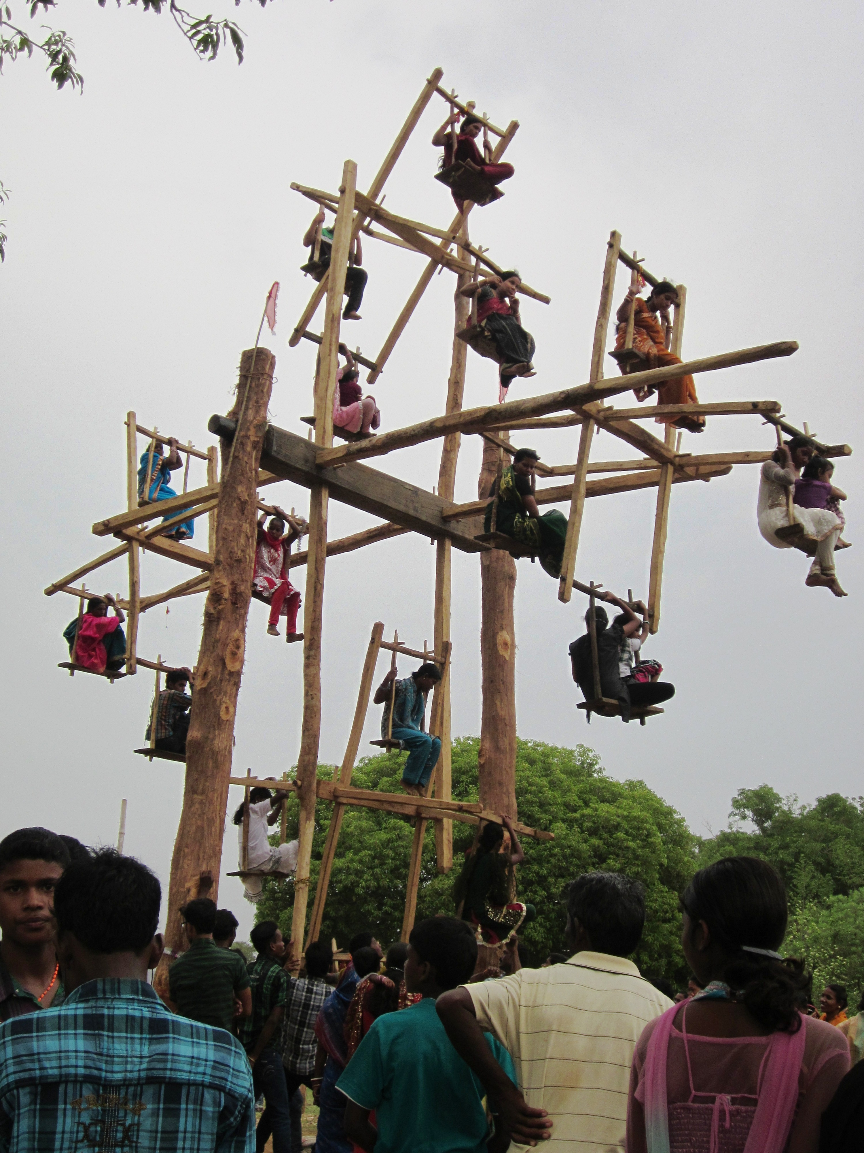 Photo of a giant Doli at Putulia village of Keonjhar District